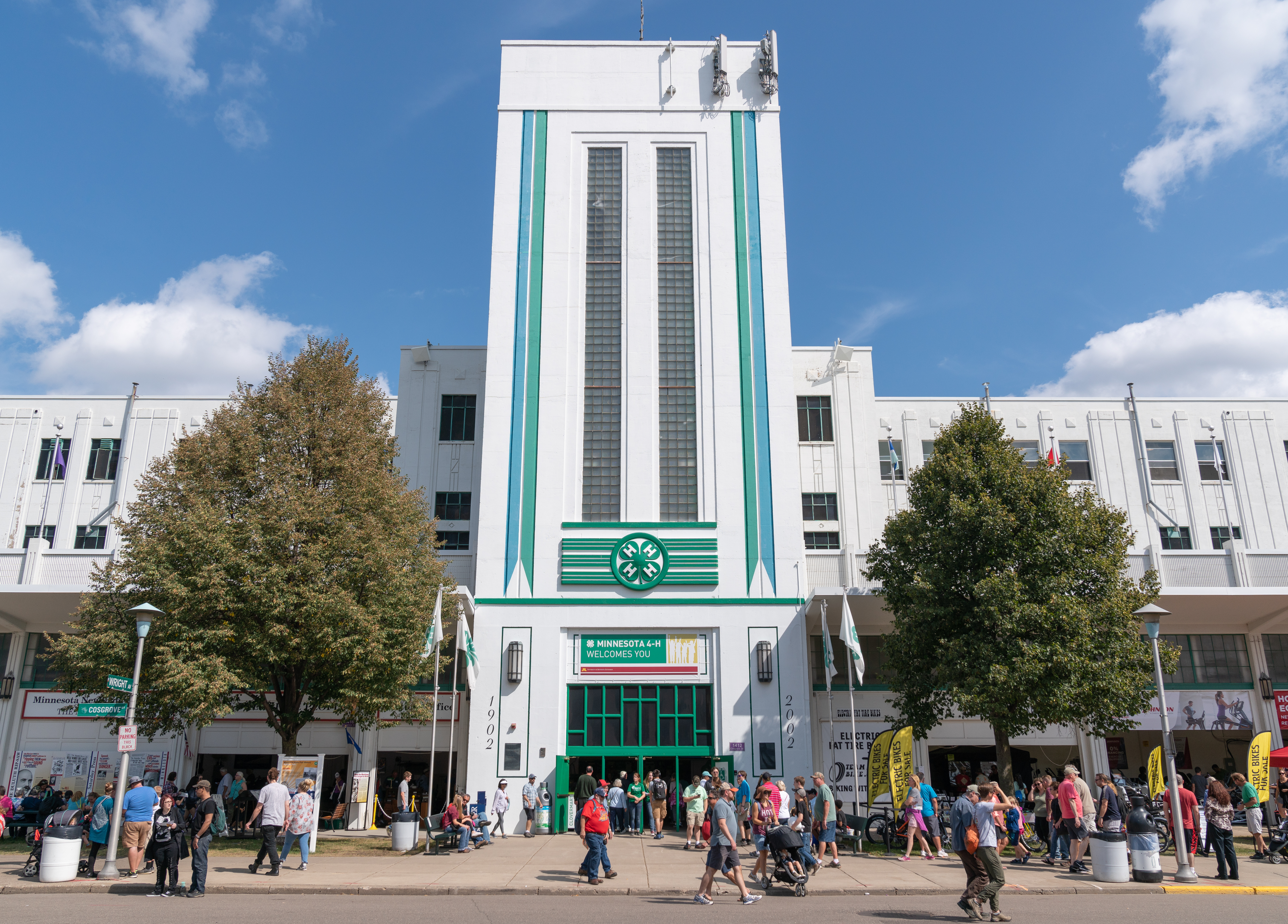 Minnesota State Fair on August 29, 2018. MINNESOTA 4-H WELCOMES YOU